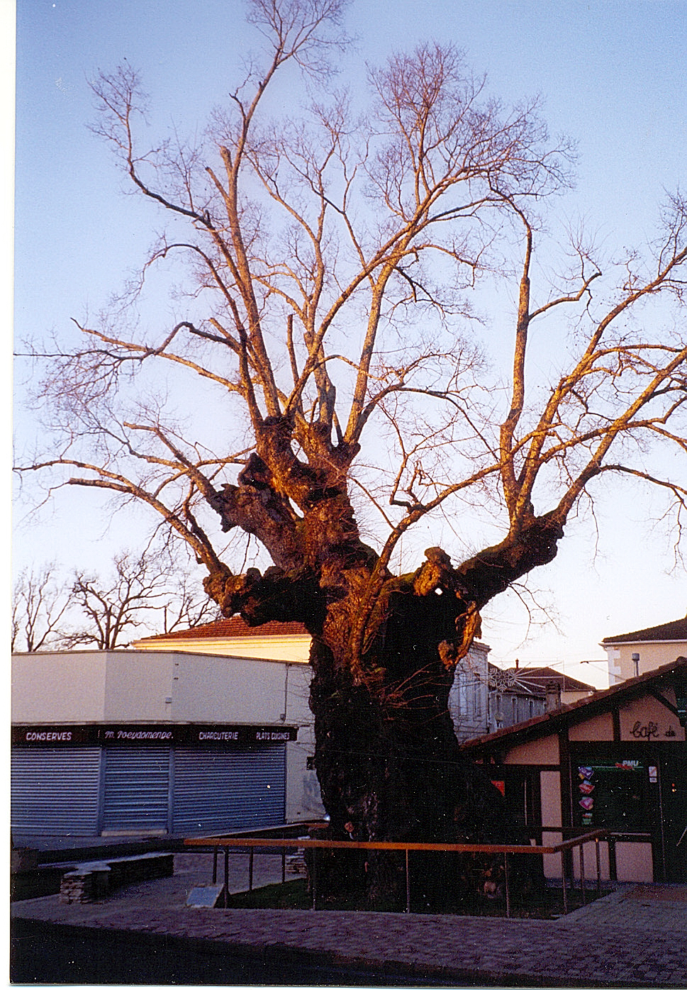 Photograph of Europe's oldest elm, taken Jan. 2005, by A H Brookes, Biscarrosse, Landes, France.